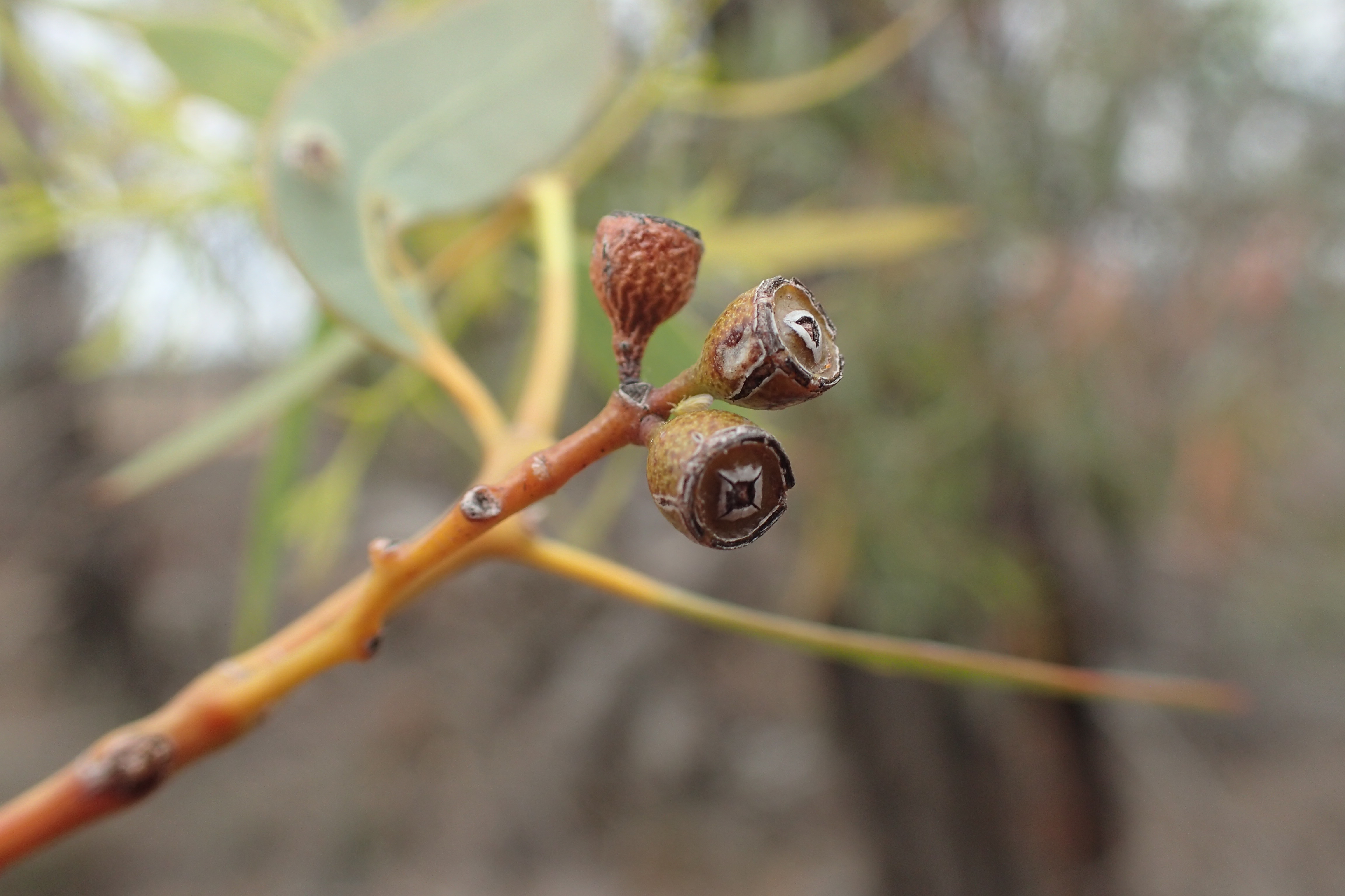 Fruit Eucalyptus rhombica near the Karara to Milmerran road